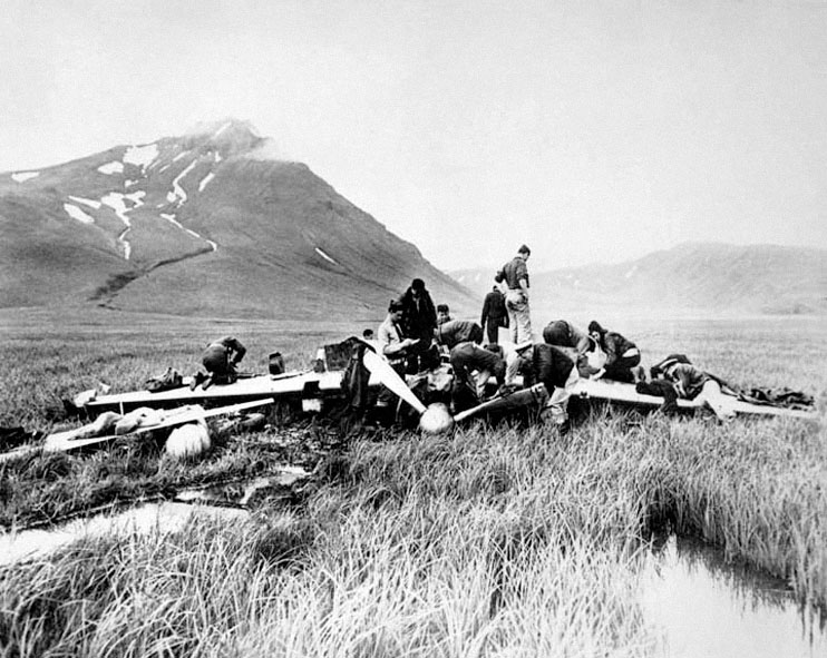 A US military recovery crew on July 11, 1942 swarms over an Imperial Japanese Navy Zero aircraft which crashed on Akutan Island, Alaska on June 4, 1942 after bombing Dutch Harbor. The pilot, Tadayoshi Koga, was killed in the crash. The soft marshy surface prevented serious damage to the aircraft. The plywood drop fuel tank was torn from the Zero as it slid across the marsh. The aircraft was moved to the US and later used for intelligence purposes by the US.